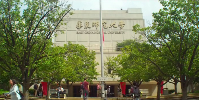 A screenshot from the movie Game of Pawns, produced by the FBI, the spy Glenn Duffie Shriver was in front of the main entrance to the East China Normal University in Shanghai during his first visit in China.